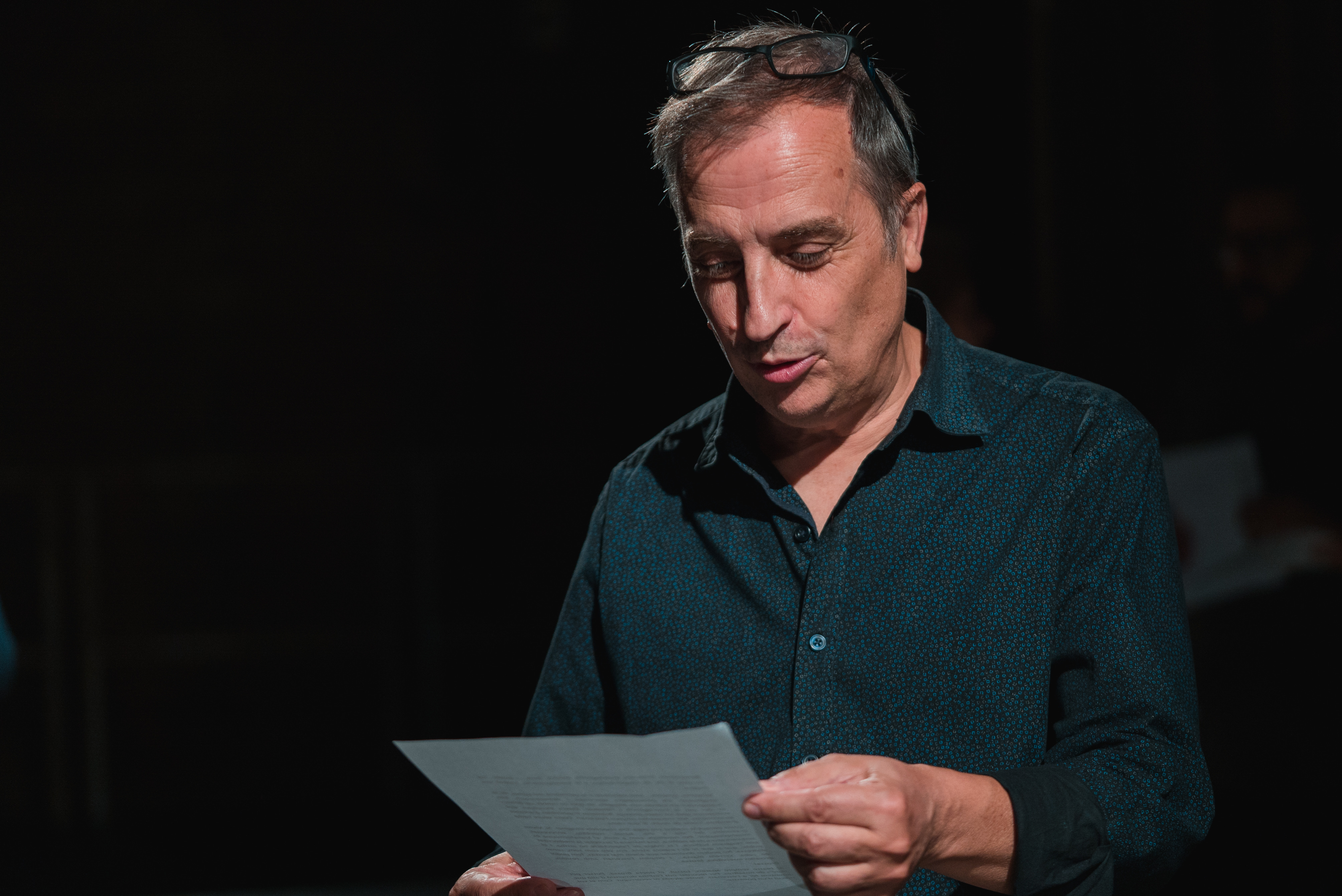 Toni Cabré Masjuan (Mataró, Maresme, 1957) is a playwright, screenwriter, engineer and Catalan cultural manager. His works have been translated into Spanish and some into English.